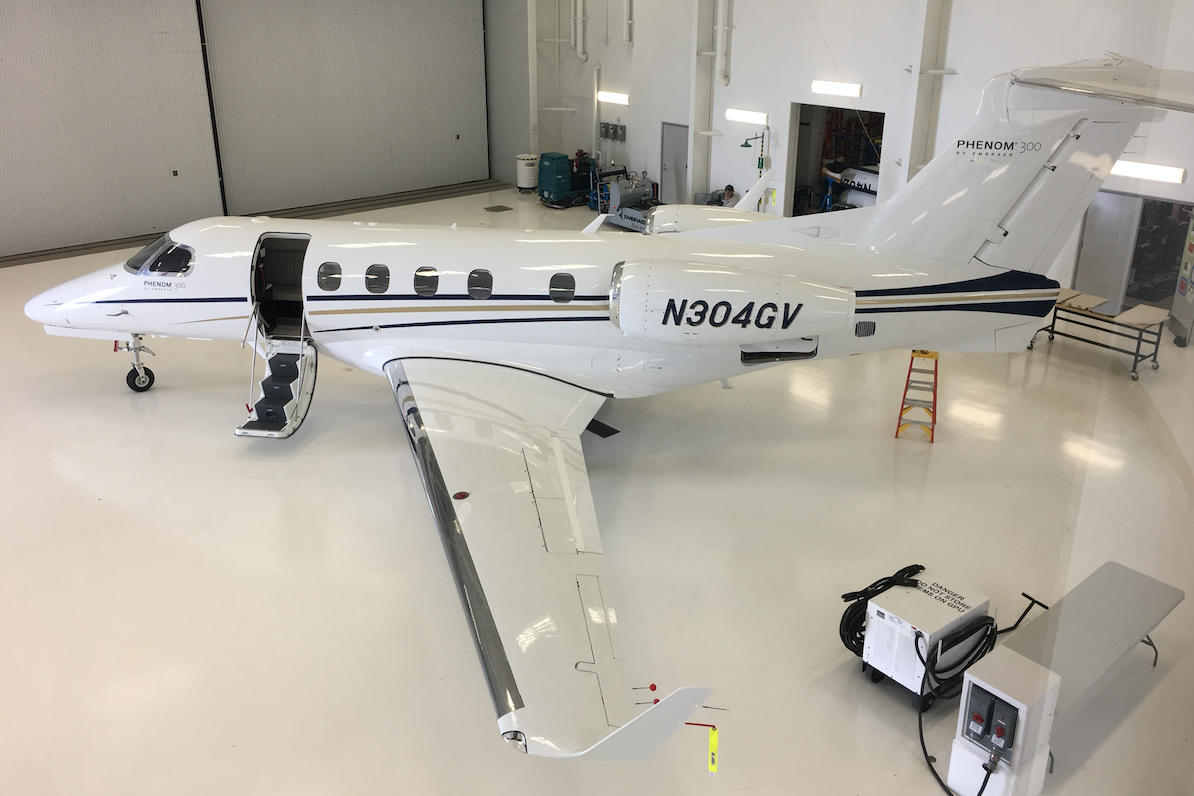 Phenom 300 owned by GrandView Jets in hangar